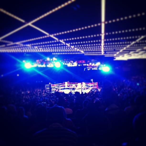 Distant view of Gennady "GGG" Golovkin fighting for his WBA and IBO middleweight titles against Gabriel Rosado at Madison Square Garden in New York, New York, U.S., on January 19, 2013.